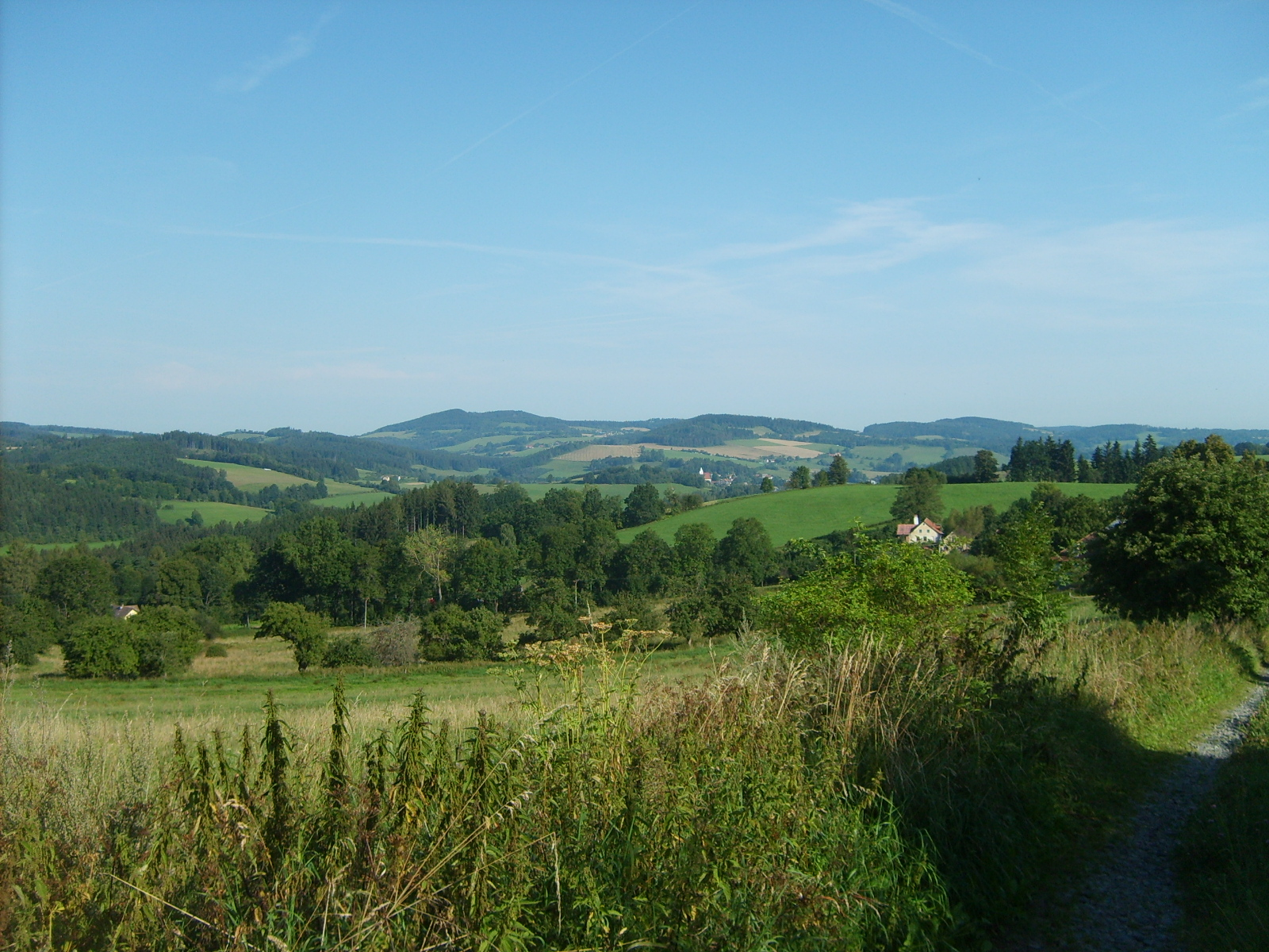 Countryside between Hartmanice and Petrovice at settlement Loučová.